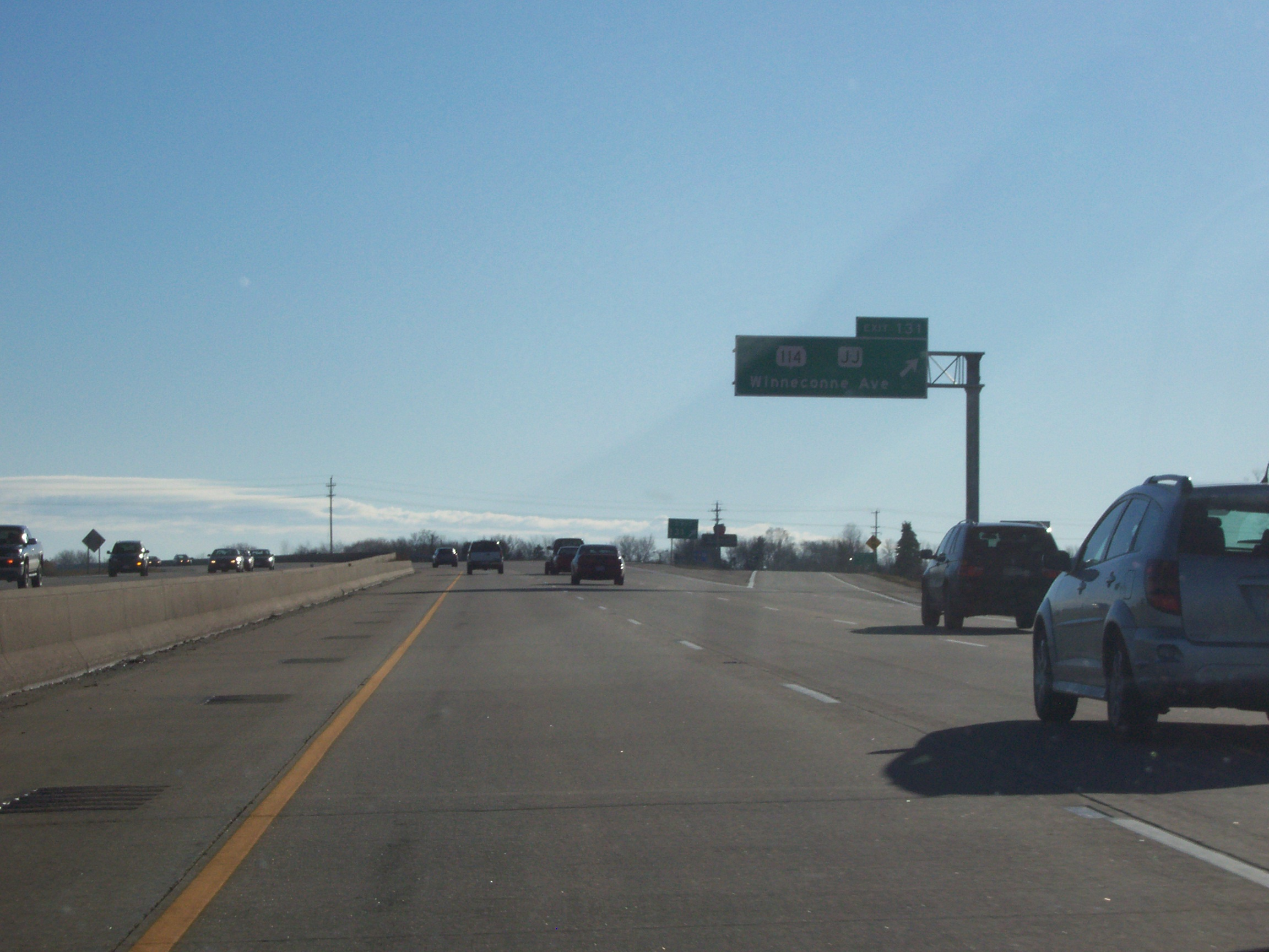 Category:Images of Wisconsin highways (Original text: Looking south at the west terminus of Highway 114 (Wisconsin) while travelly southbound on U.S. Route 41 in metro Appleton, Wisconsin (I think Menasha).)